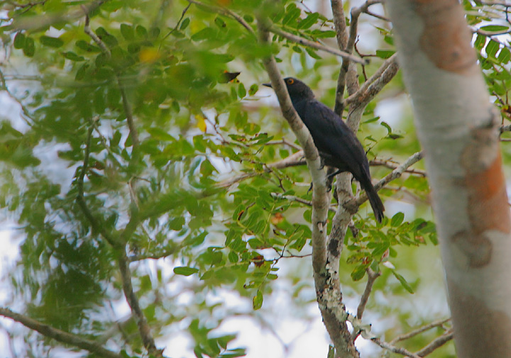 Not the best of photographs but there are not that many images of this bird around. Taken In Arabuko-Sokoke Forest in coastal Kenya.